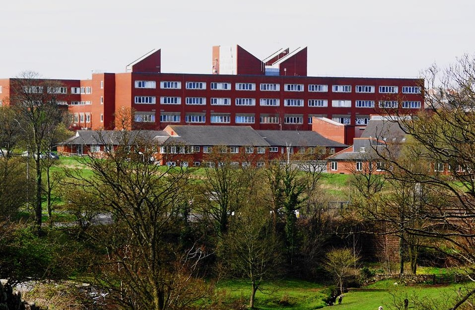 Furness General Hospital, Barrow-in-Furness, England viewed from Manor Road close to Furness Abbey